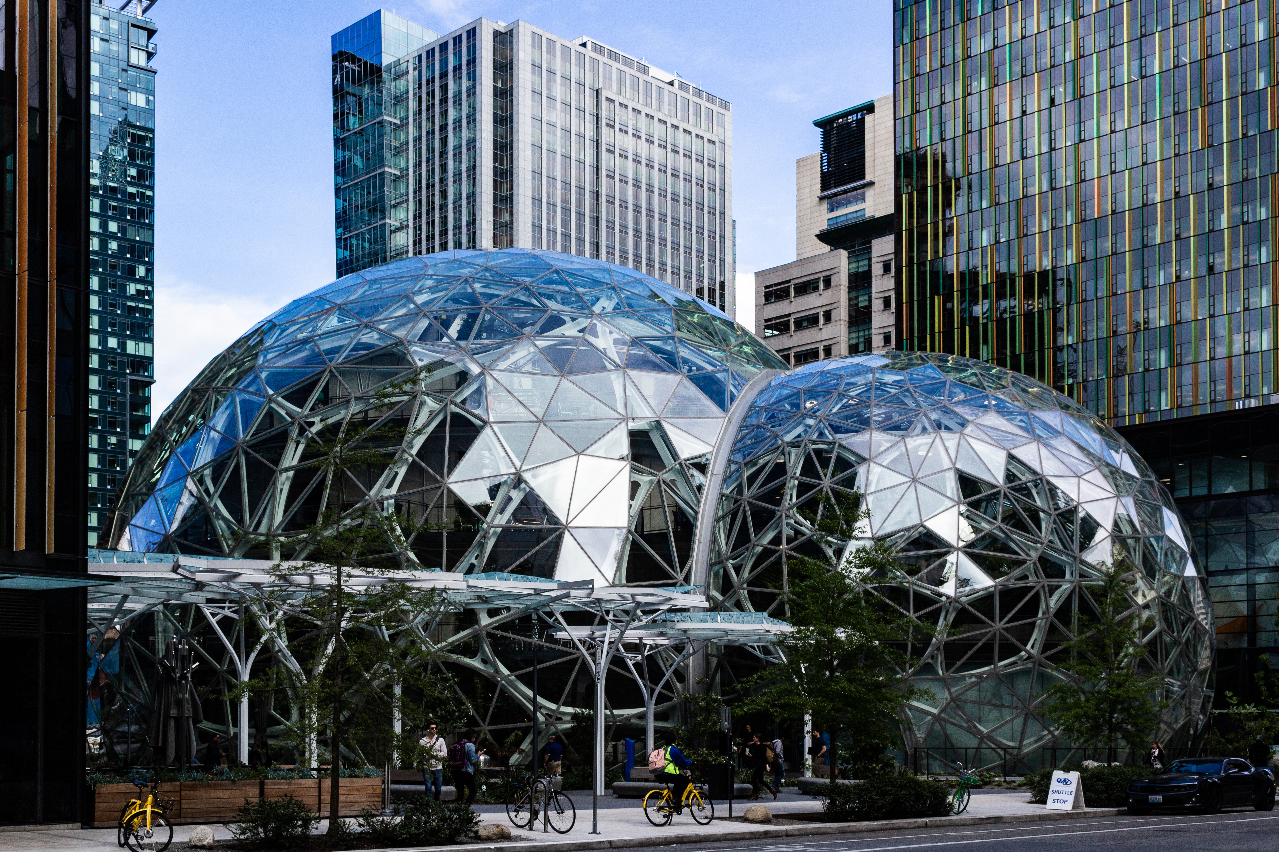 Photo of the exterior of Amazon Spheres captured on May 10, 2018